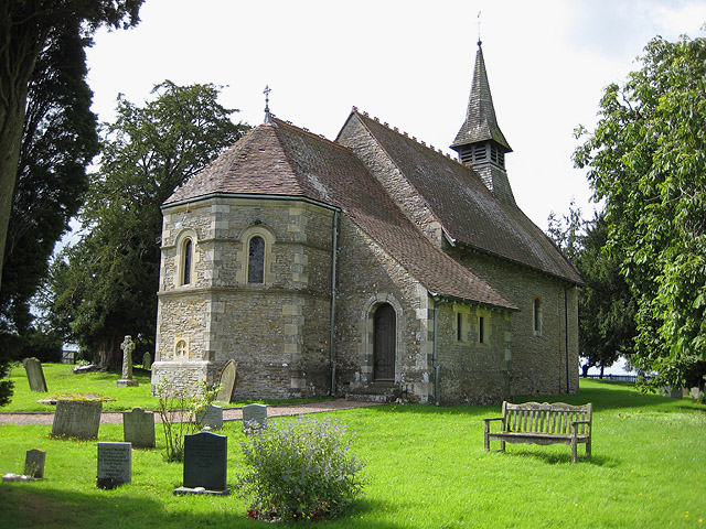 Church of England parish church of St Michael and All Angels, Bulley, Gloucestershire: view from the northeast.